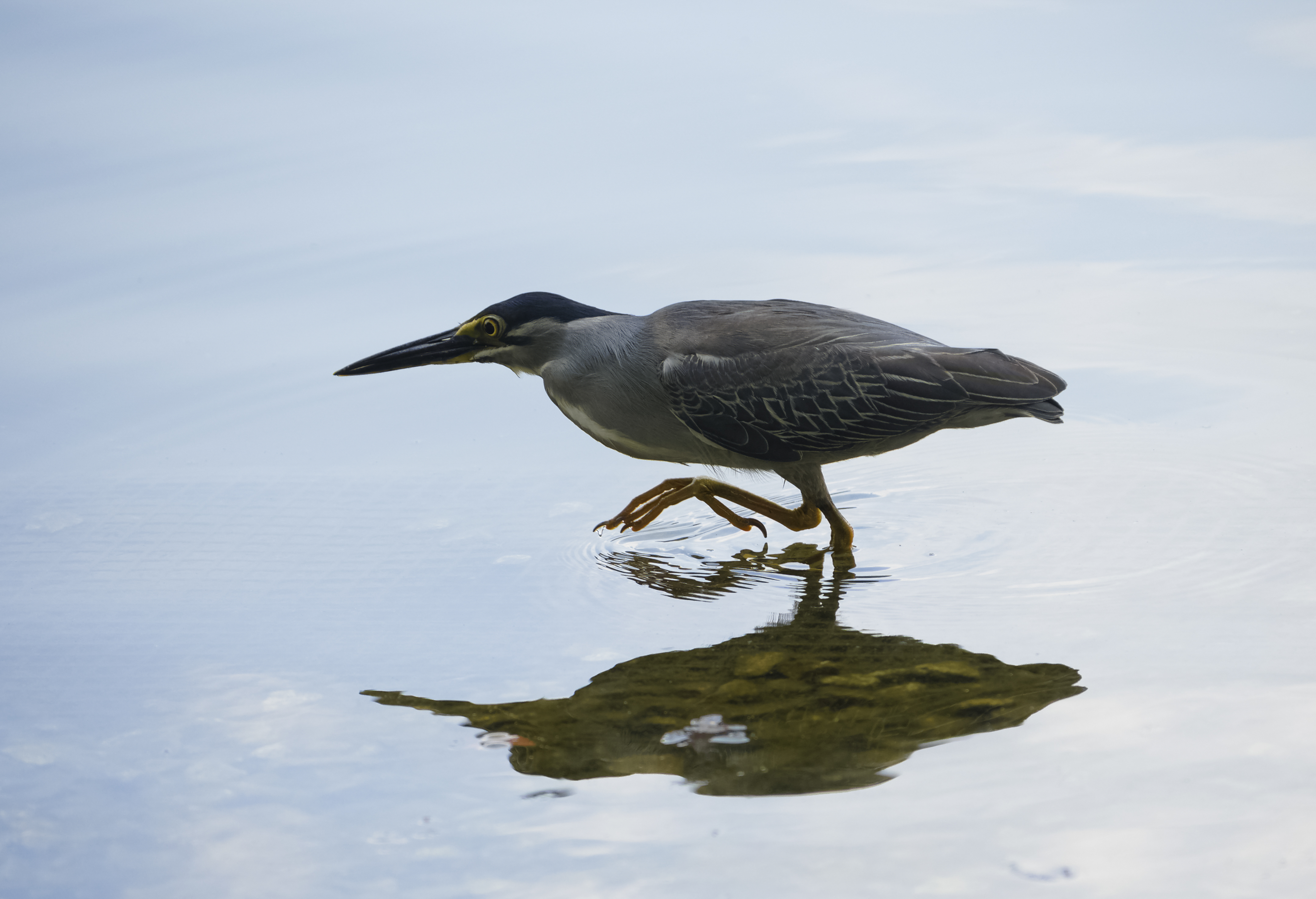 A Striated heron (Butorides striata) looks for fish.